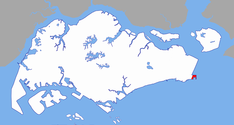 Created by Vsion